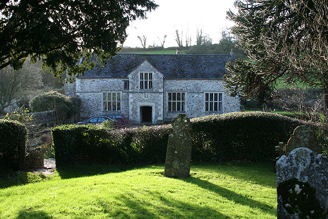 Widworthy: Widworthy Barton An Elizabethan manor house, seen from St Cuthbert’s churchyard. Looking south west